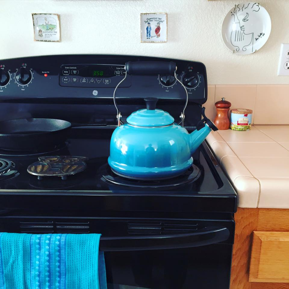 Tea kettle made by Le Creuset